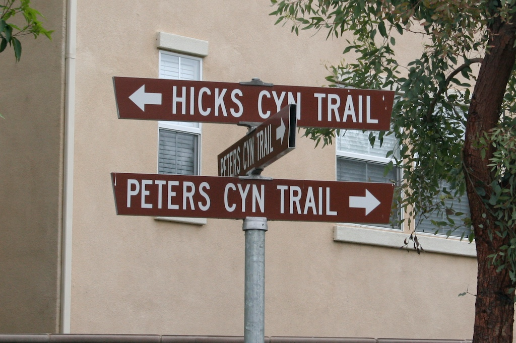 Signpost on San Diego Trail and Peters Canyon Trail connection